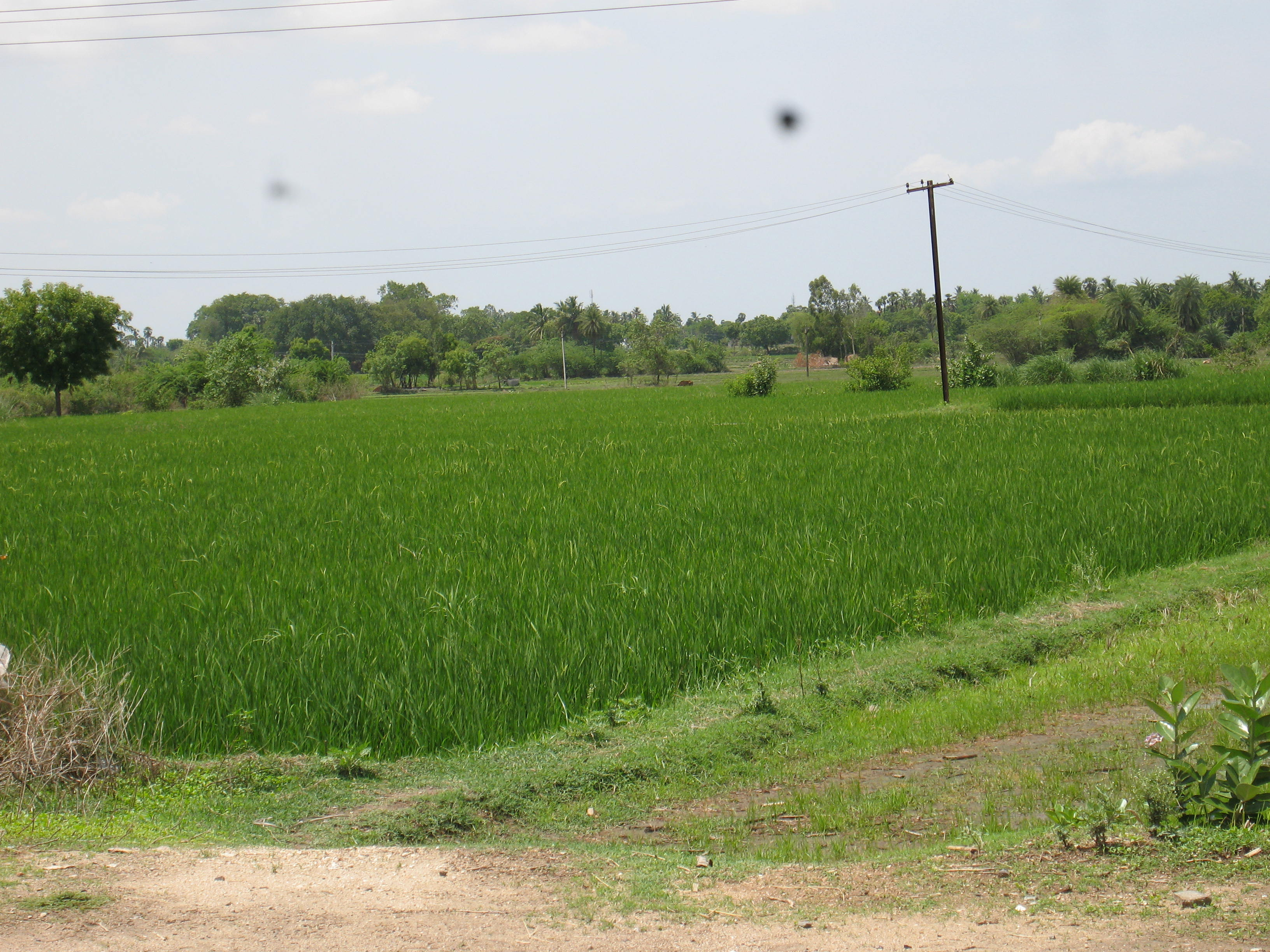 Vayalveli in Periya kolappalur